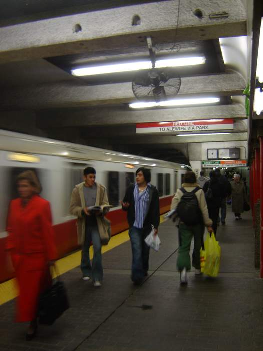 An MBTA Red Line subway train leaves the northbound platform at Downtown Crossing station